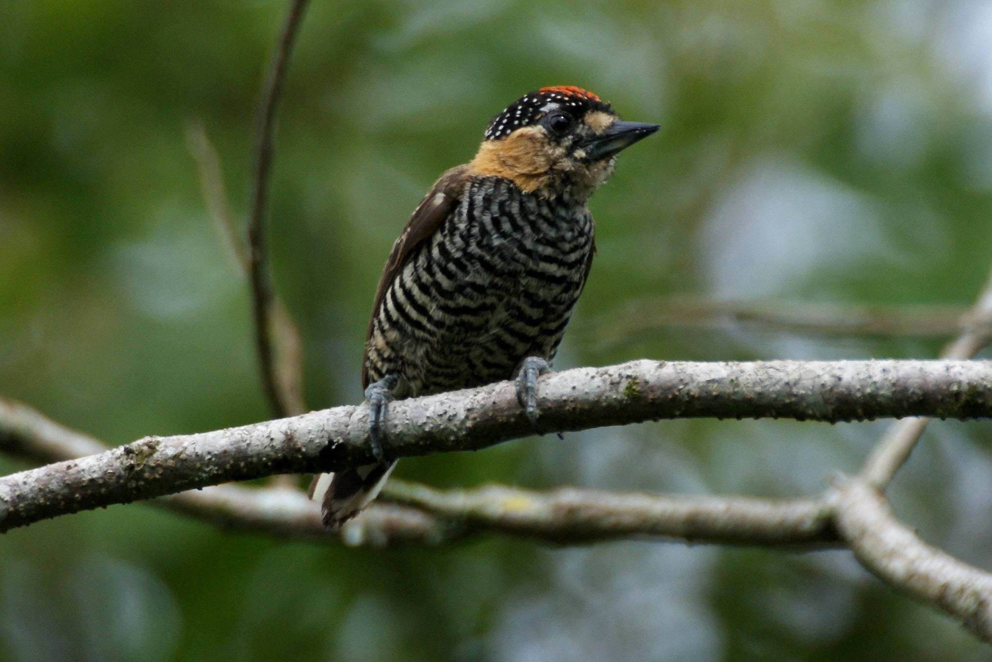 A Ochre-collared Piculet at Iguacu National Park, Paraná State, Brazil.